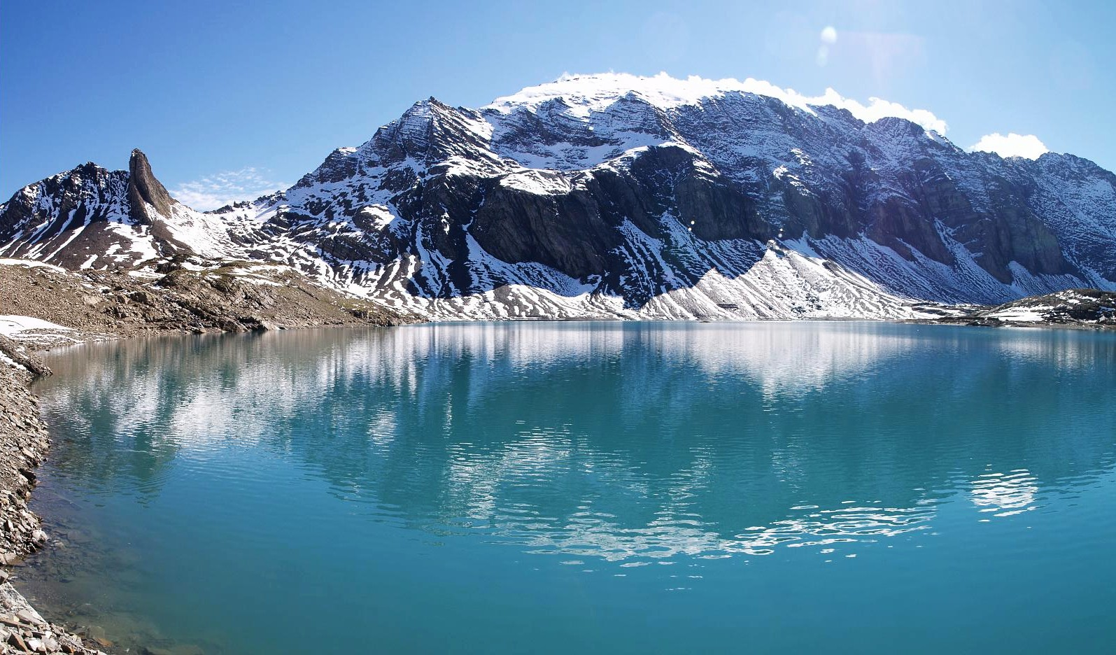 Muttsee in the Swiss Canton of Glarus. The needle of Hintersulzhorn (2738 m) to the left, mount Ruchi (3107 m) in the center, mount Muttenstock (3089 m) in the background on the far right